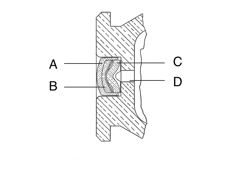 Boxer primer. Created from the picture from Hmaag, published on Wikimedia under [CC BY-SA 3.0 or GFDL. I just removed the german description and added there letter which should enable wider usage. ]